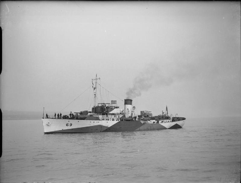 Photograph of Temptress class gunboat USS Fury, formerly HMS Larkspur, off Liverpool, UK.